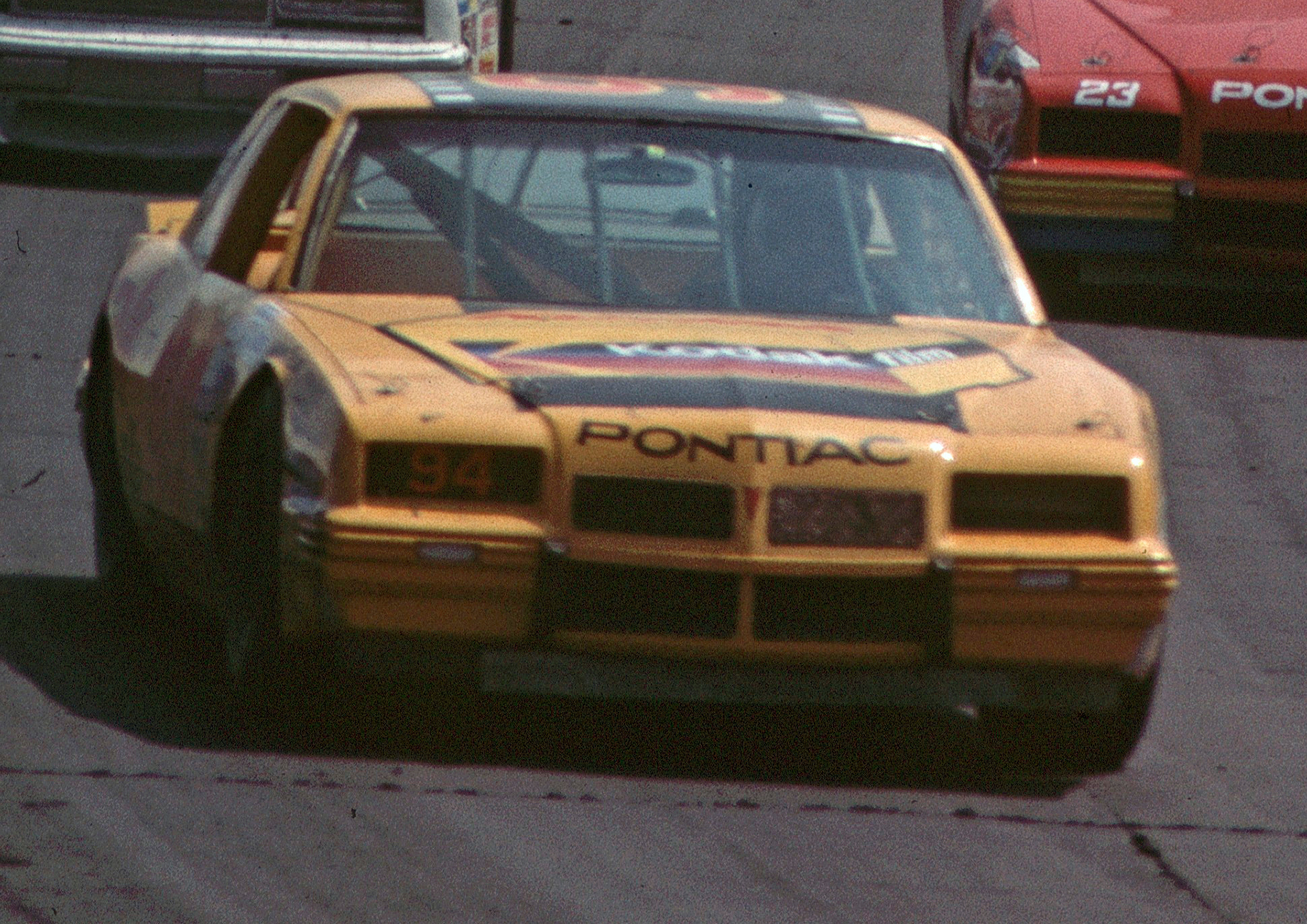 NASCAR driver Trevor Boys racing in the corner in 1986. Photo by Ted Van Pelt with Creative Commons License.